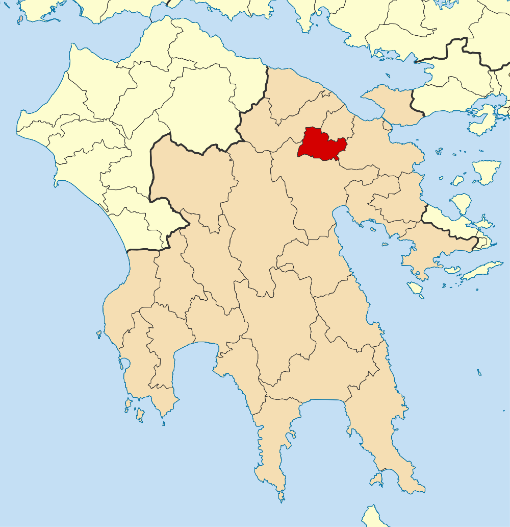 Locator map for Nemea municipality in Greek region Peloponnese (2011)